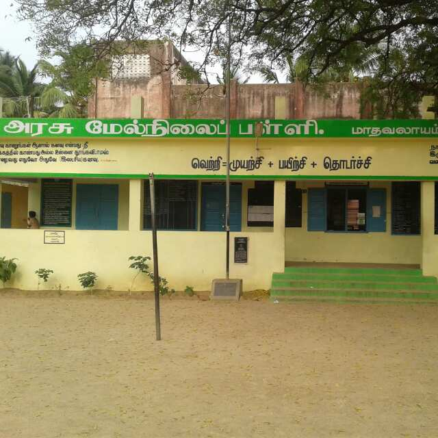 ghss layam entrance building